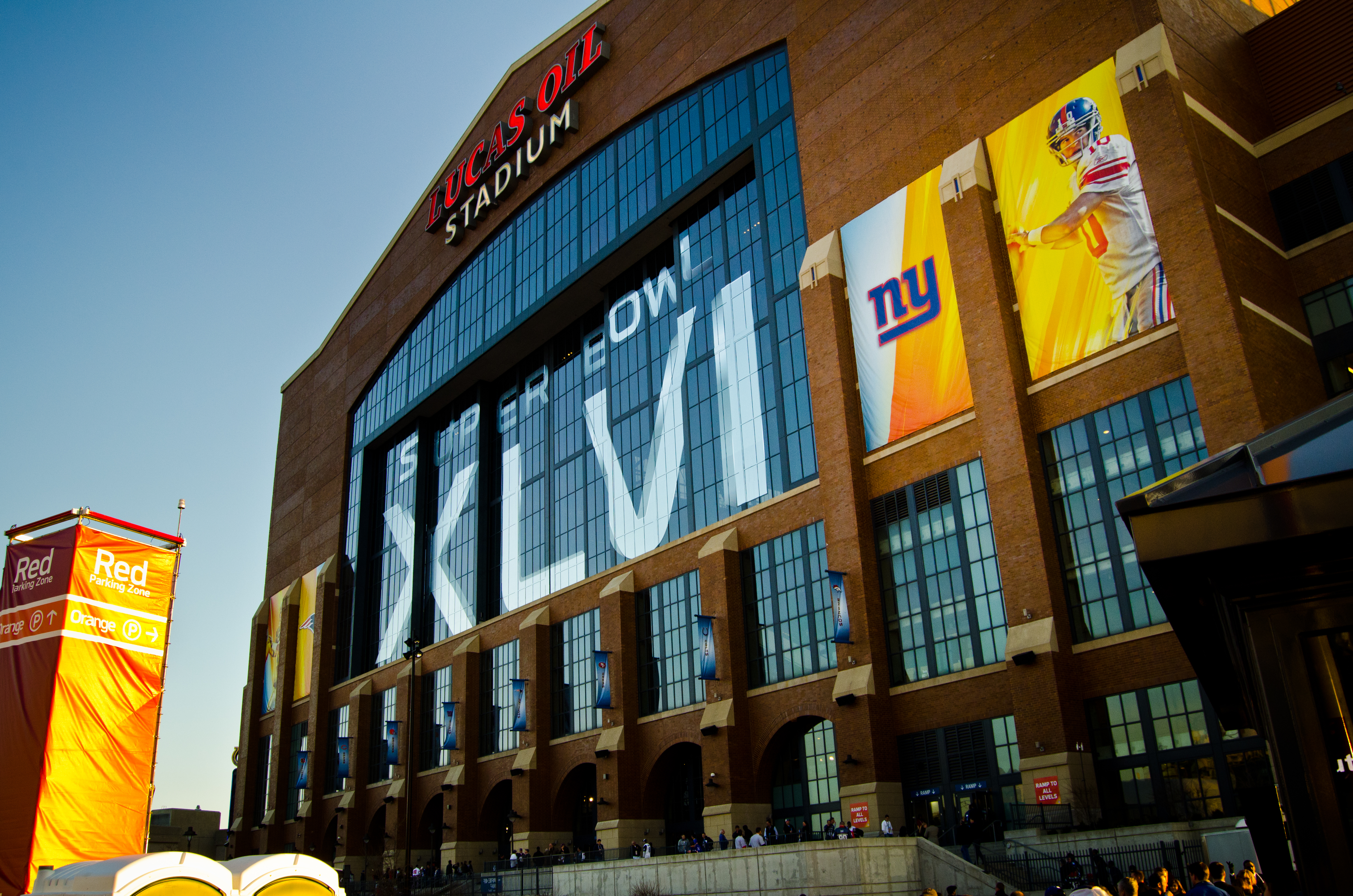 Super Bowl-6